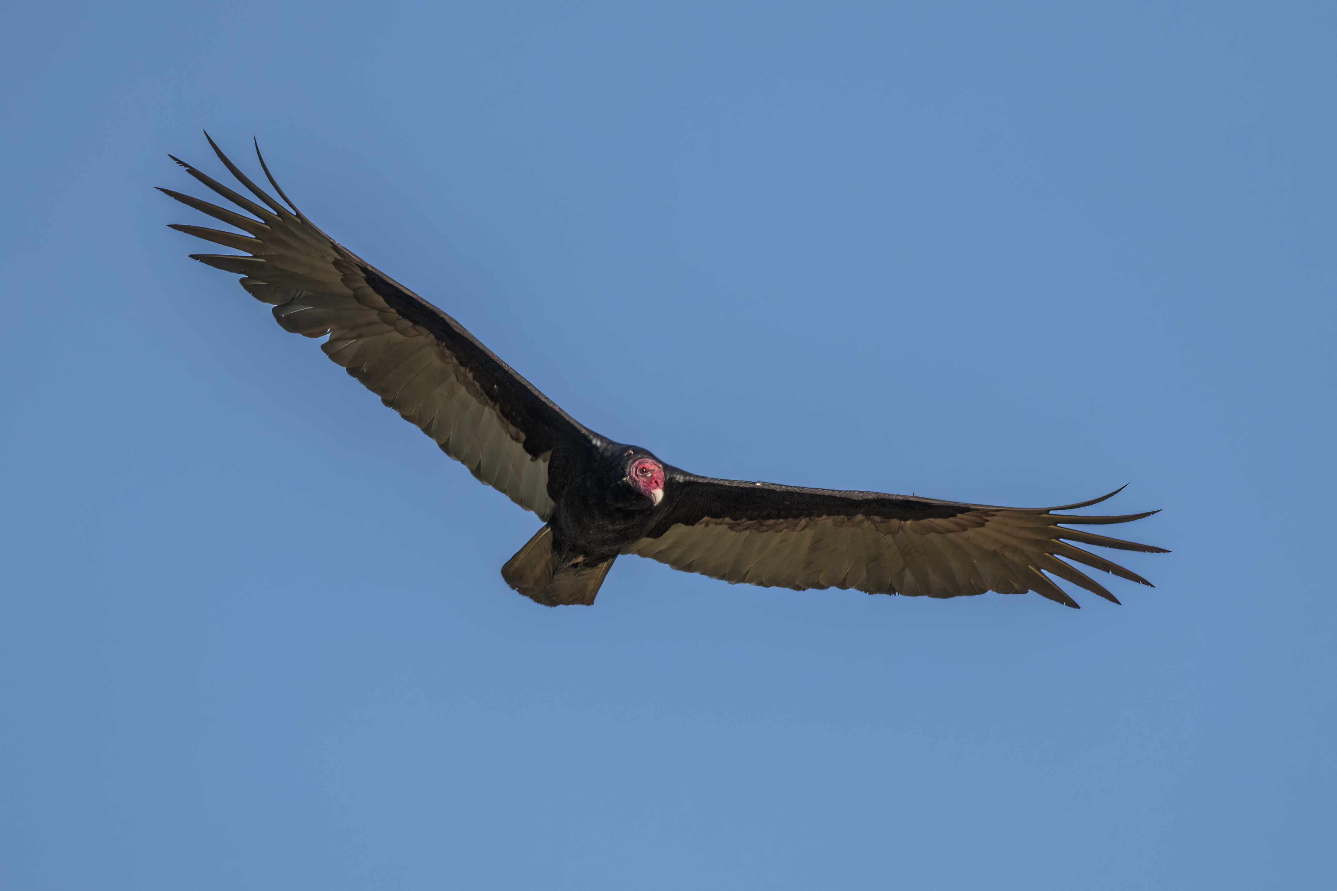 Turkey vulture (Cathartes aura) in flight, Cuba